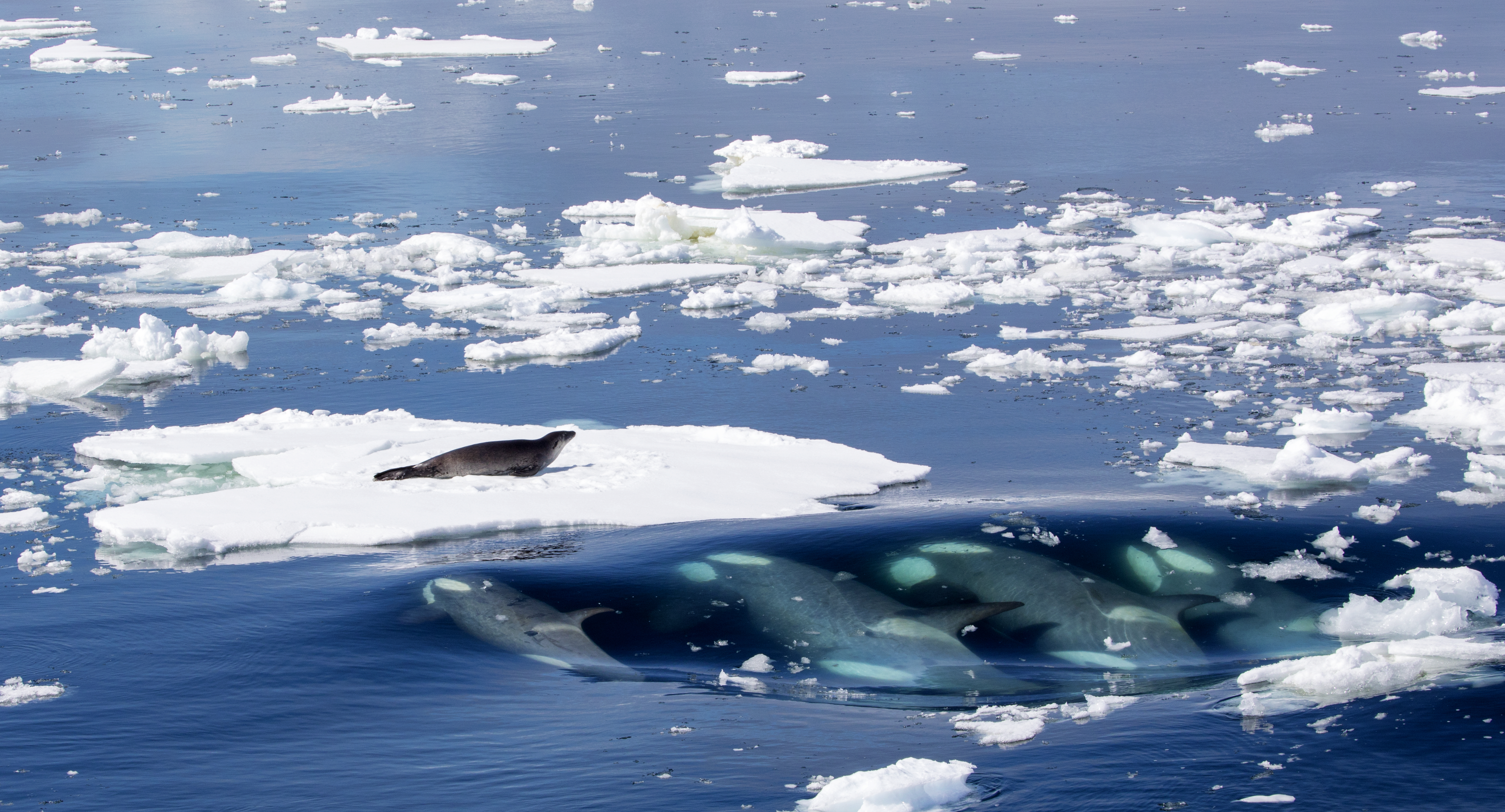 This photograph was taken off the Graham Coast, Antarctica from on board the National Geographic Explorer expedition ship. It captures four killer whales swimming in close synchronization just below the surface of the water as they charge an ice floe bearing a crabeater seal. By cooperatively hunting in this manner, the whales create a strong bow wave with which they hope to wash the seal off the ice floe. The seal, known informally as "Kevin", eventually escaped after enduring three dozen such attempts to make him into a shared meal.